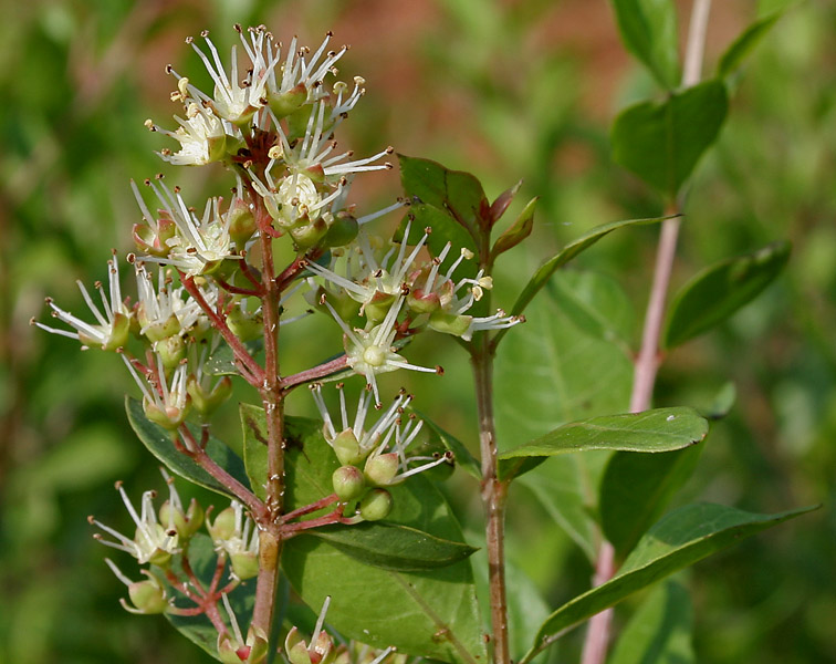 Mehndi or Henna Lawsonia inermis in Hyderabad , India.